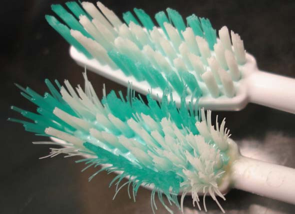 Sikat Gigi Rusak (kiri)